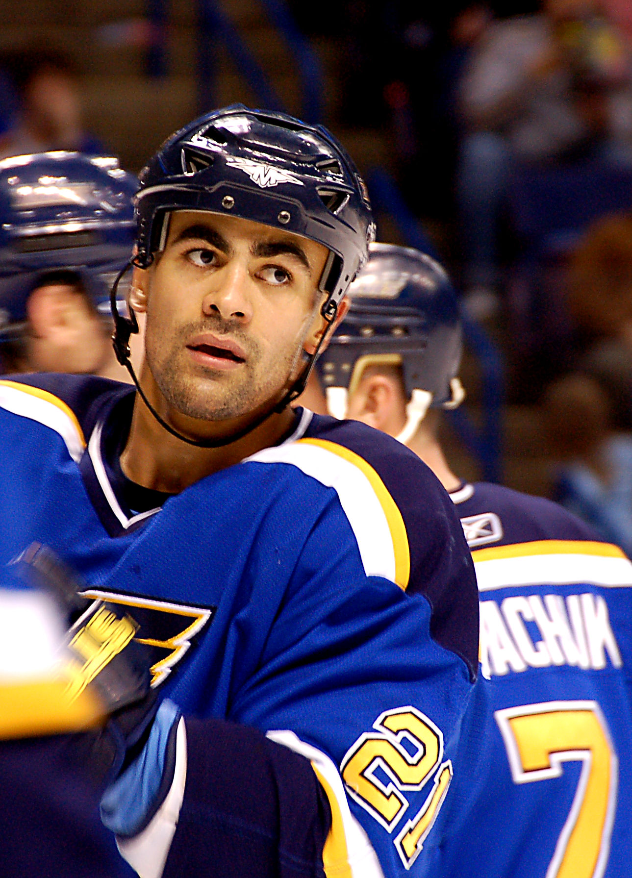 Jamal Mayers of St. Louis Blues, game vs. San Jose Sharks, November 28, 2006